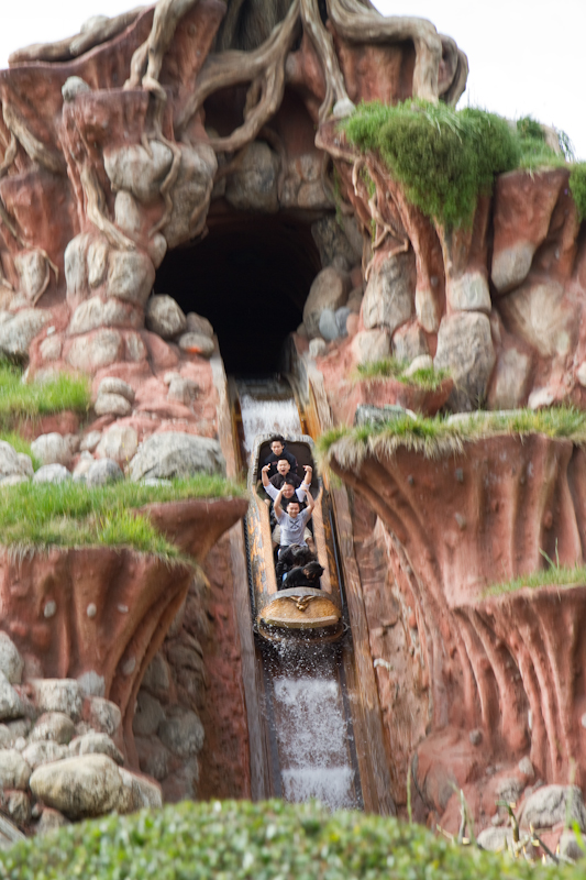 Splash Mountain